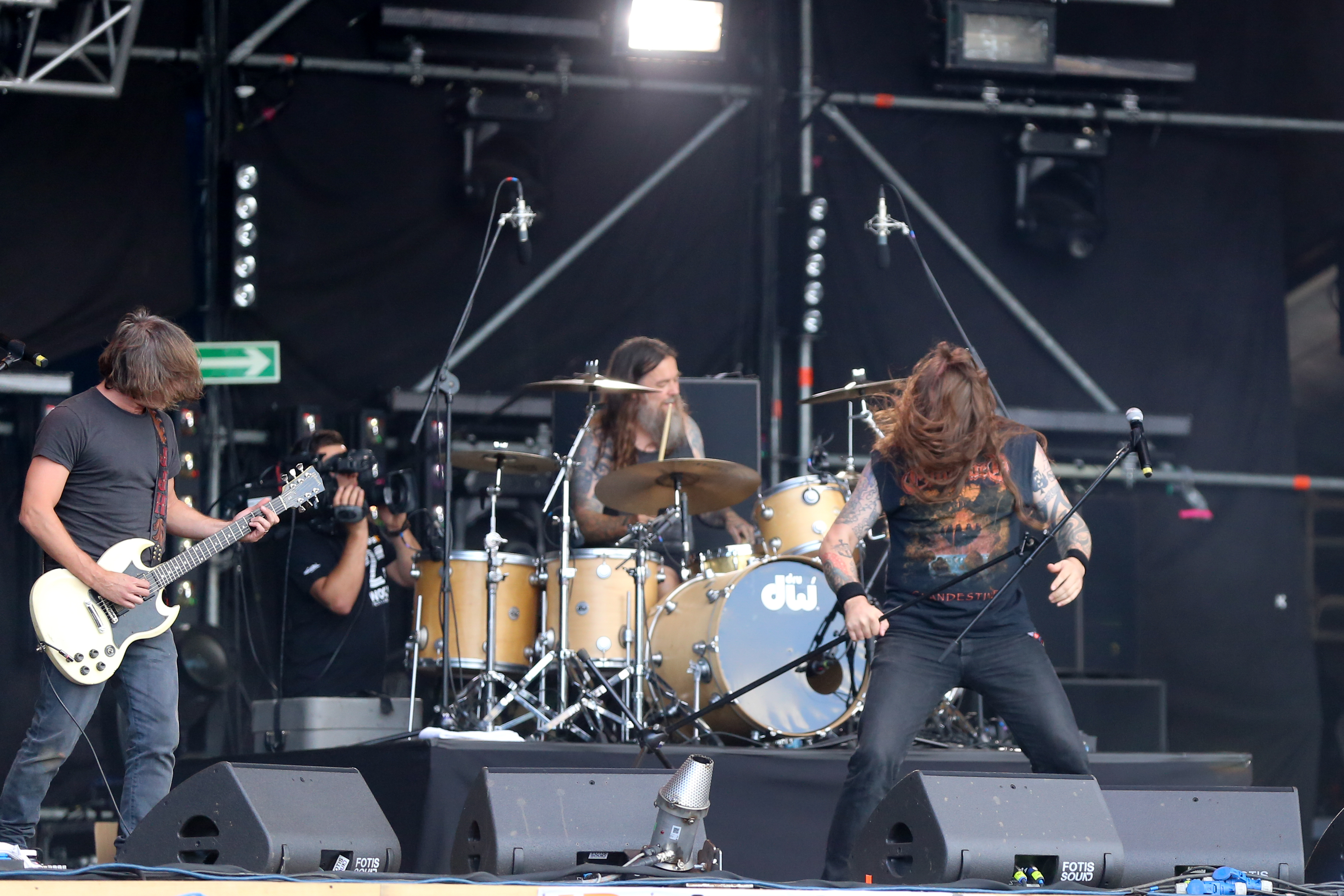 Przystanek Woodstock in 2017.